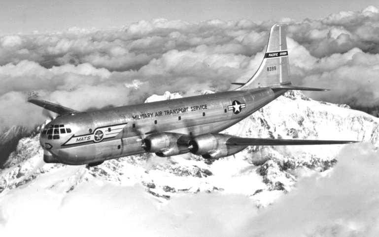 A Boeing C-97A Stratofreighter (s/n 48-399) in Military Air Transport Service markings.